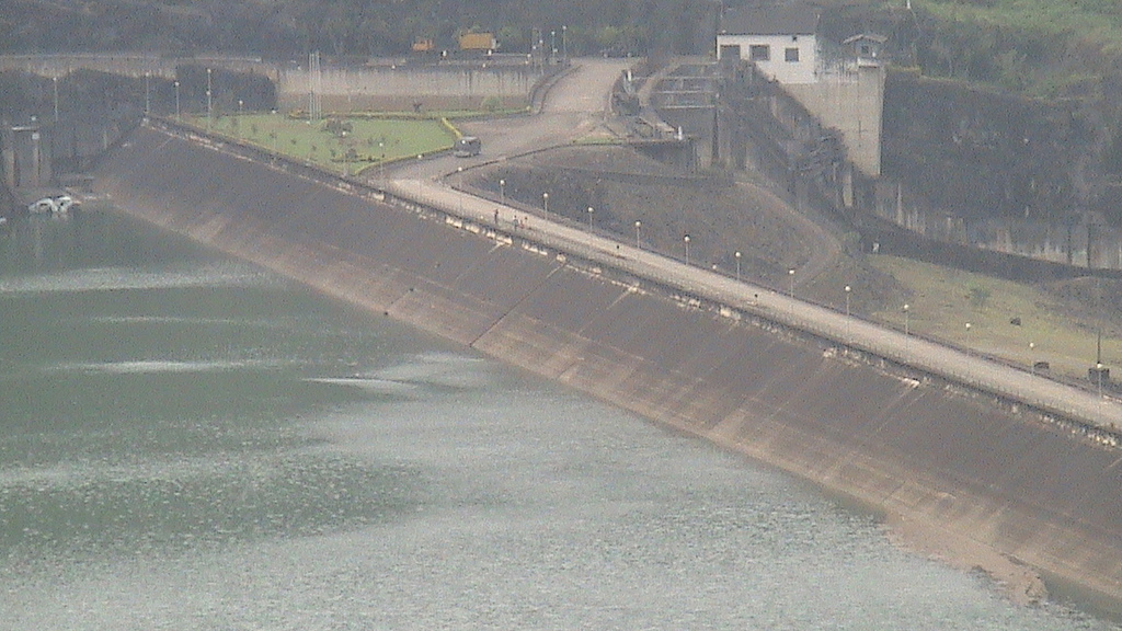 Partial view of the southern end of the Kotmale Dam in Sri Lanka.